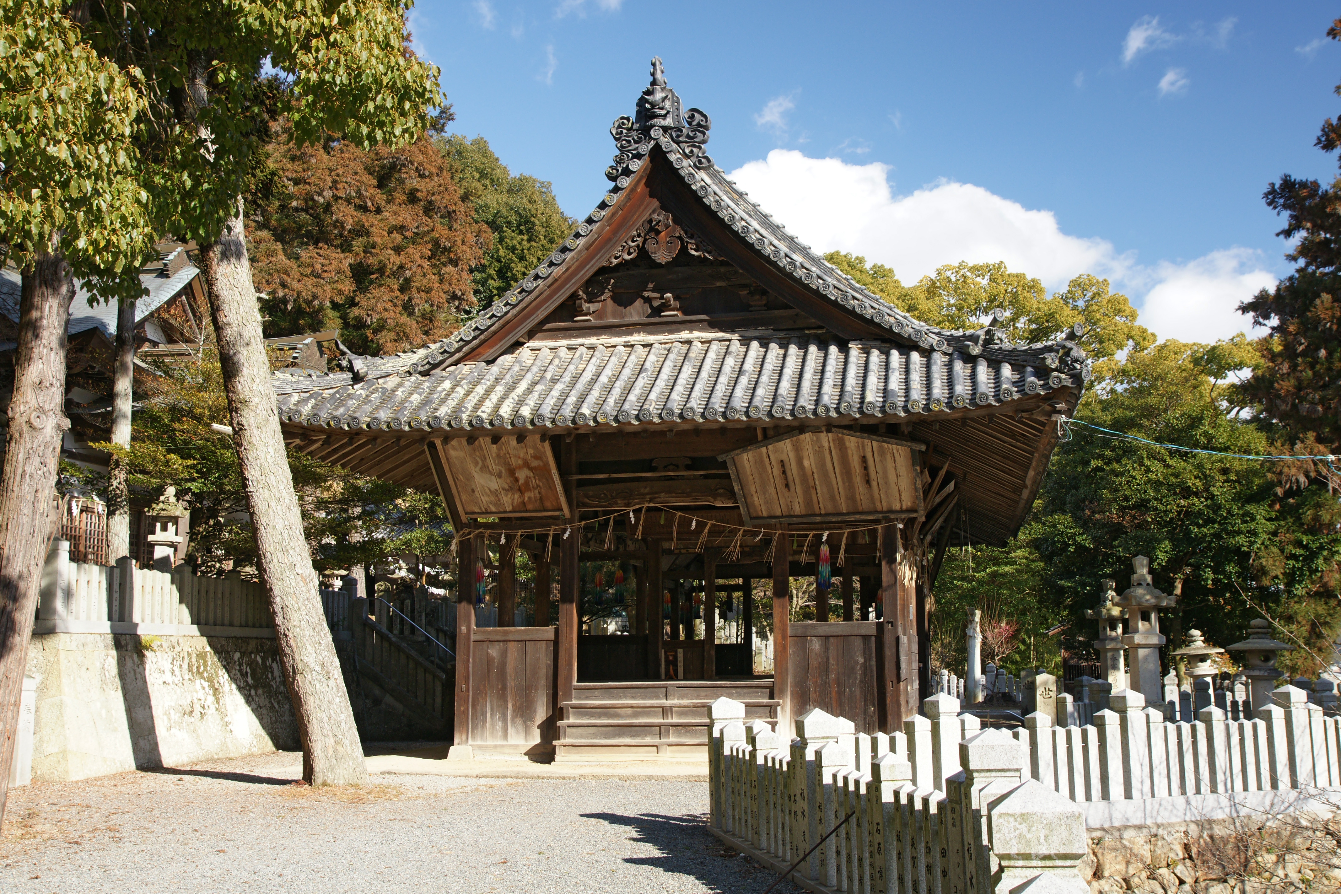 Iibonimasuamaterasu-jinja in Tatsuno, Hyogo prefecture, Japan